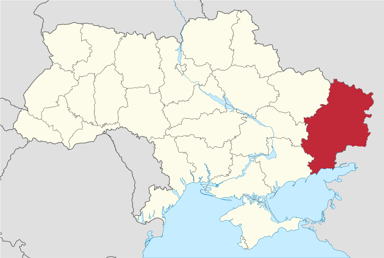 Political map of Ukraine, highlighting Donbass Region